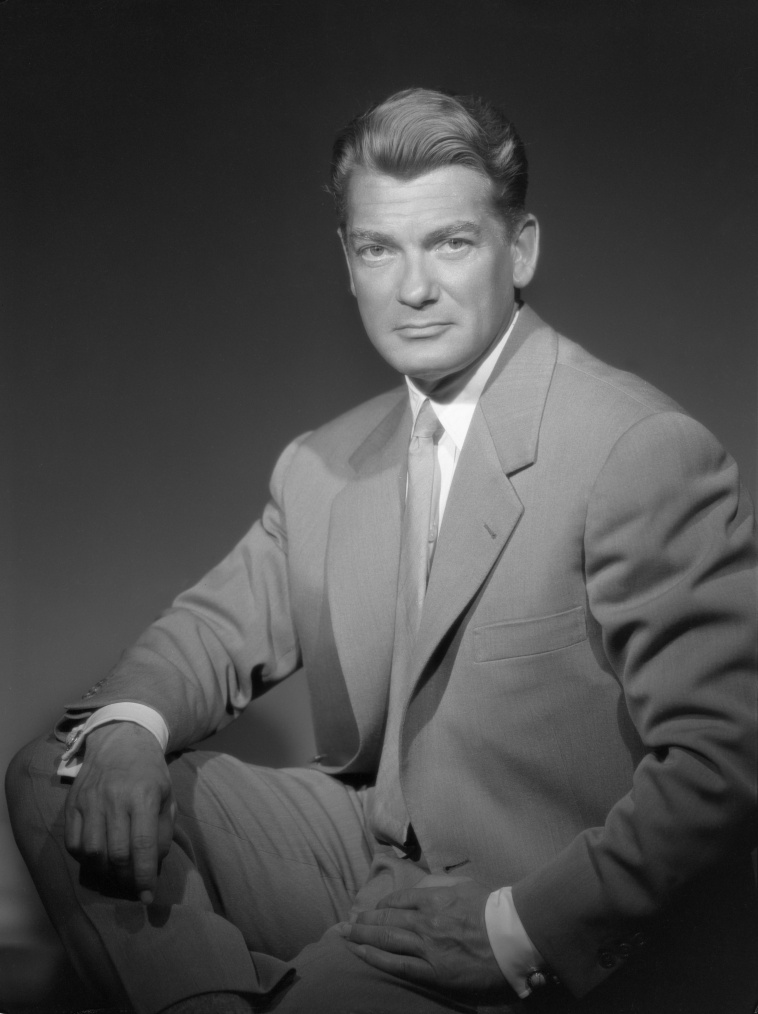 Studio photo